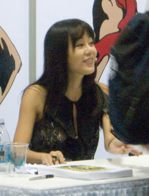 Yungin Kim at the Hawaii Convention Center